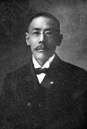 Image of A. Yasuda